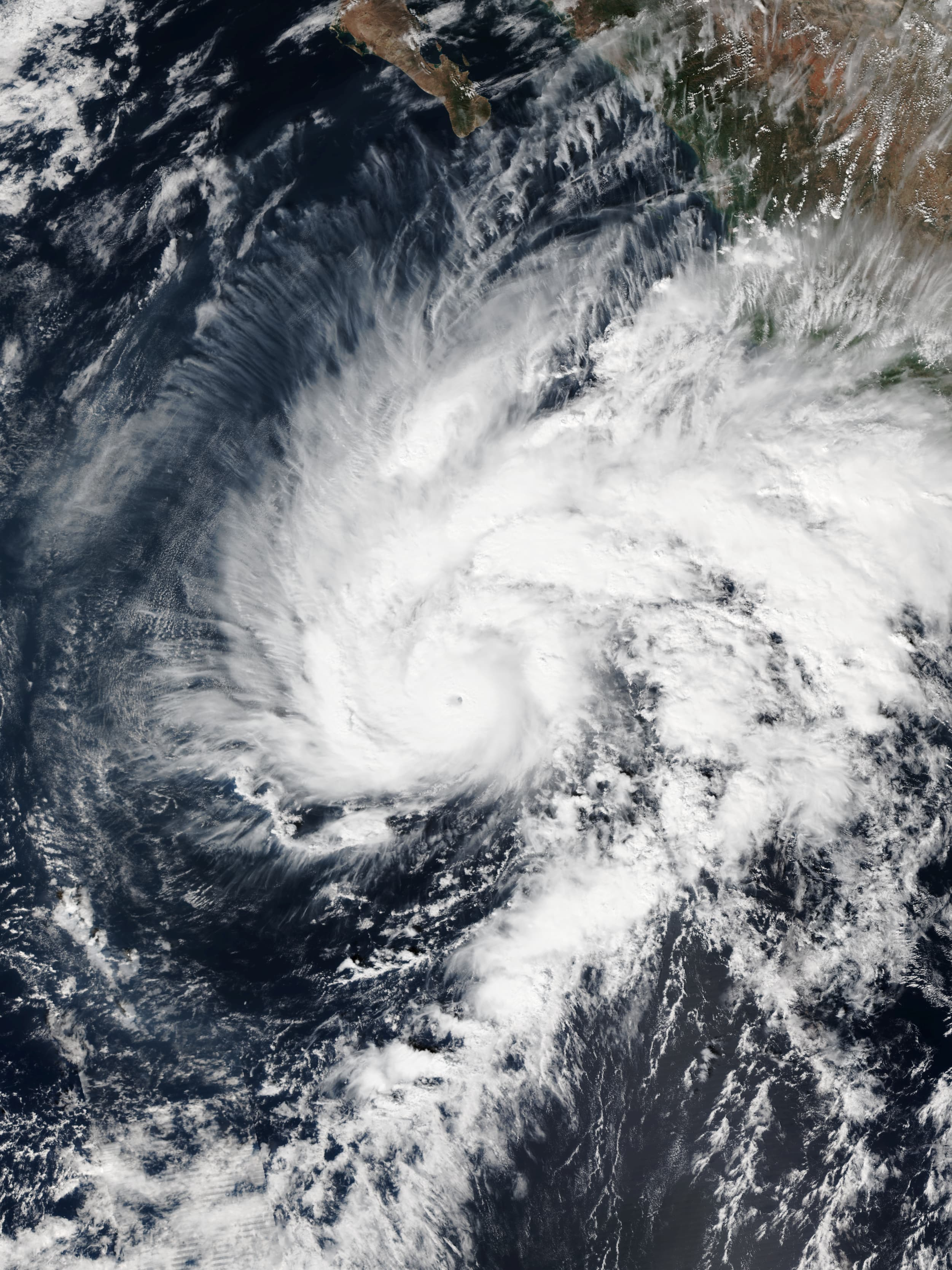 Hurricane Sandra (22E) during peak intensity on November 25, 2015